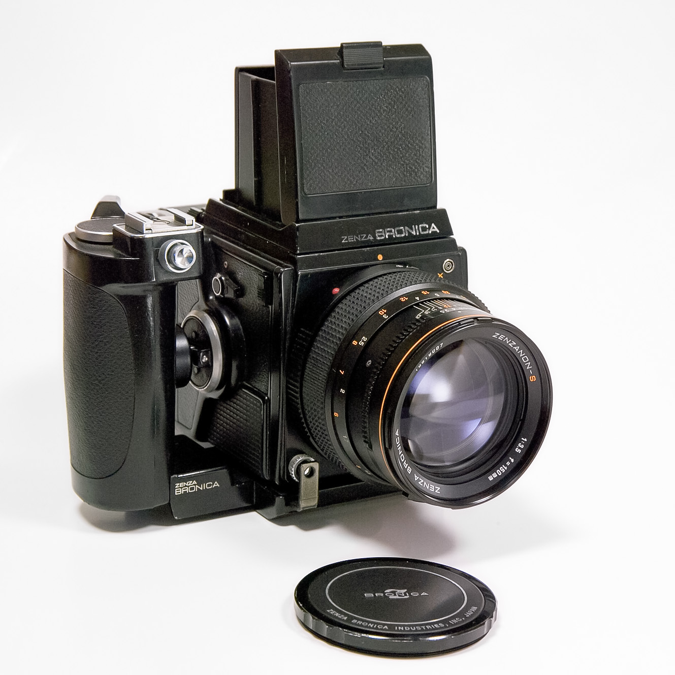 Zenza Bronica SQ camera with hand grip/winder and waist-level finder and Zenzanon-S 1:3.5 f=150mm lens. I took this photo and contribute my rights in the file to the public domain; people and organizations retain rights to images in it.